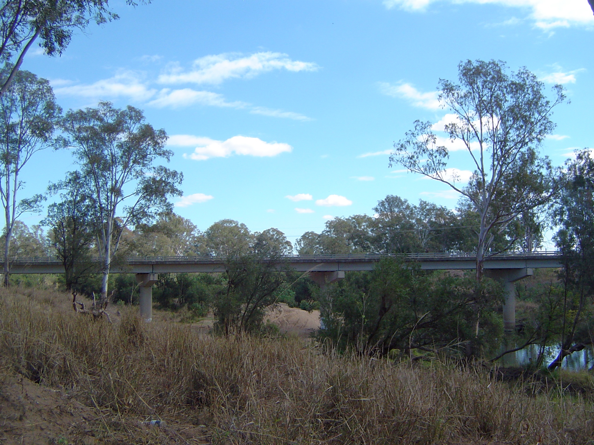 Photo of Brisbane Valley Highway crossing at Fernvale, Somerset Region, Queensland, Australia.